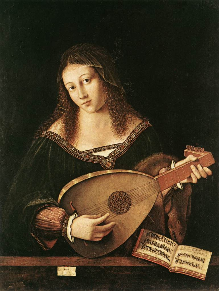 Bartolommeo Veneto (1502-1555) Woman Playing a Lute Oil on panel 1520 65 x 50 cm (25½" x 19½") Pinacoteca di Brera (Milan, Italy)